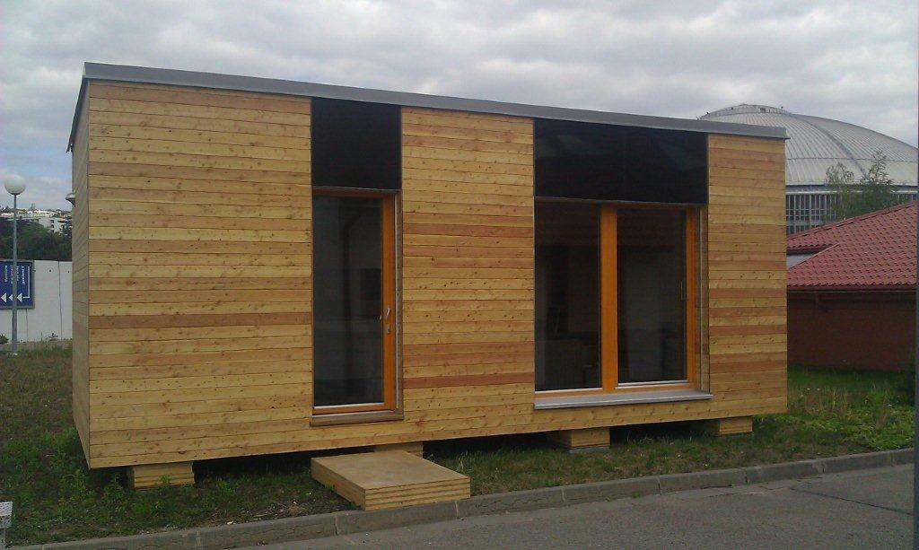 Mobile home Kubis